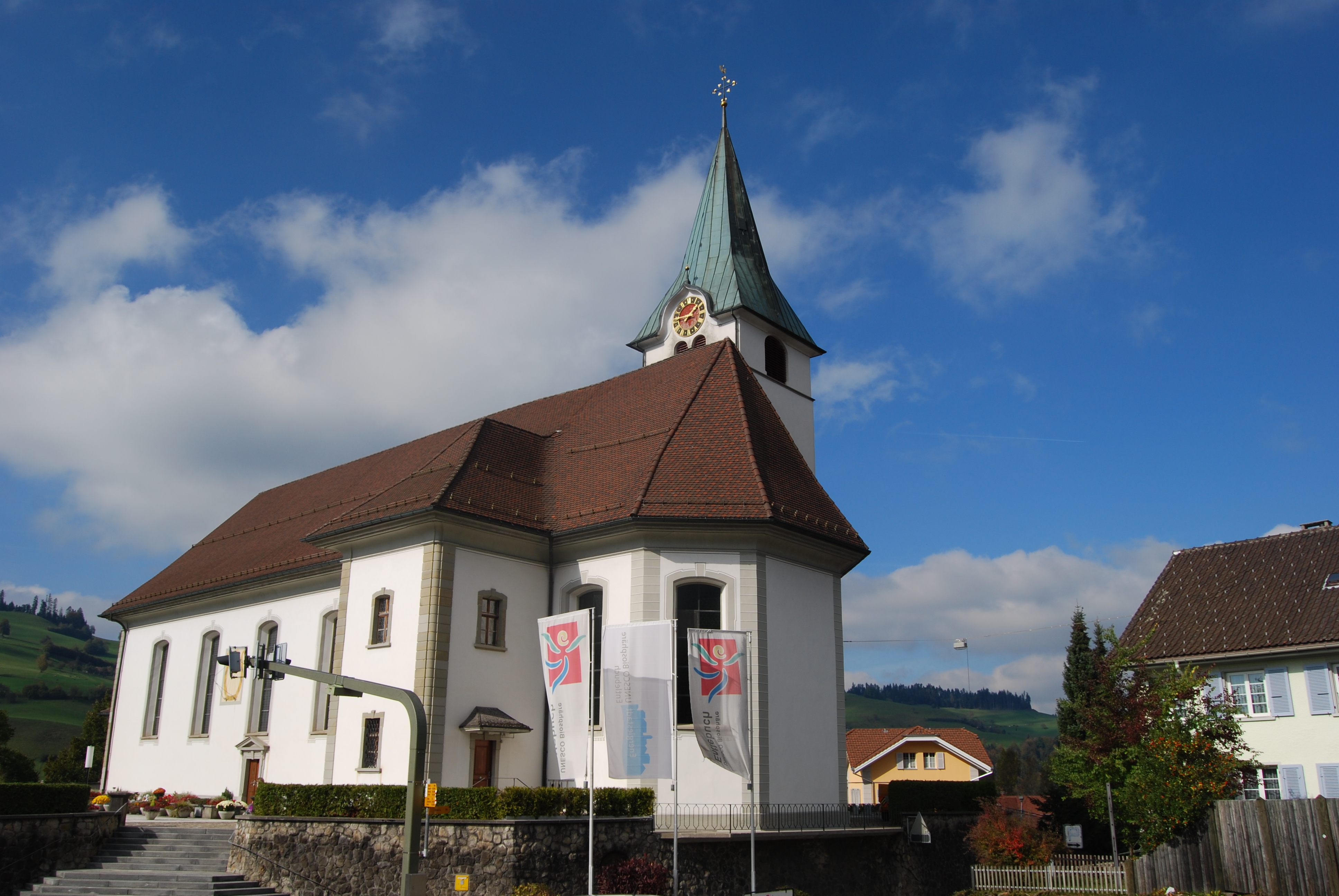 Church of Entlebuch, canton of Luzern, SwitzerlandEsperanto: Preĝejo de Entlebuch, Kantono Lucerno, Svislando